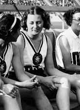 Five of the finalists of 80 m hs in 1936 Summer Olympics (from left Ondina Valla, Doris Eckert, Anni Steuer, Kitty ter Braake and Claudia Testoni)